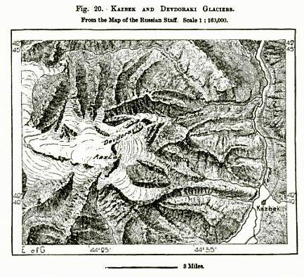 Mt Kazbek and Devdoraki Glaciers